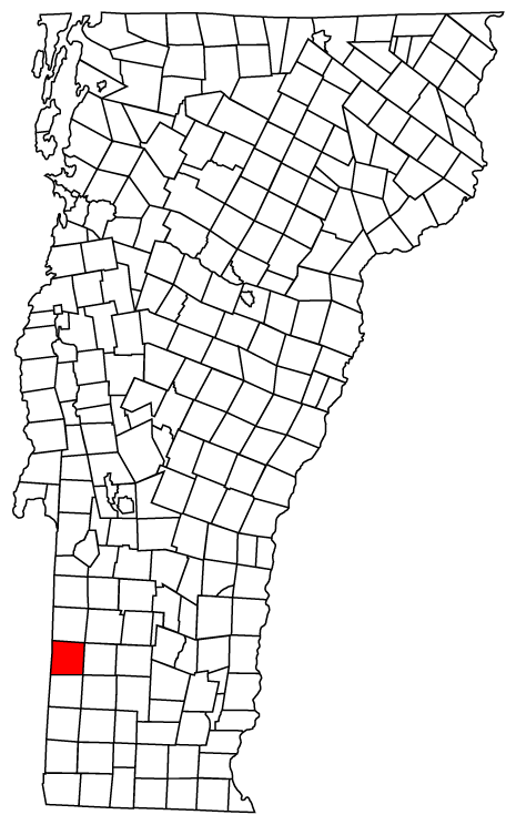 Description: Map of Vermont towns with Sandgate highlighted Source: Map created by Jared C. Benedict on 26 March 2004. Copyright: © Jared C. Benedict.